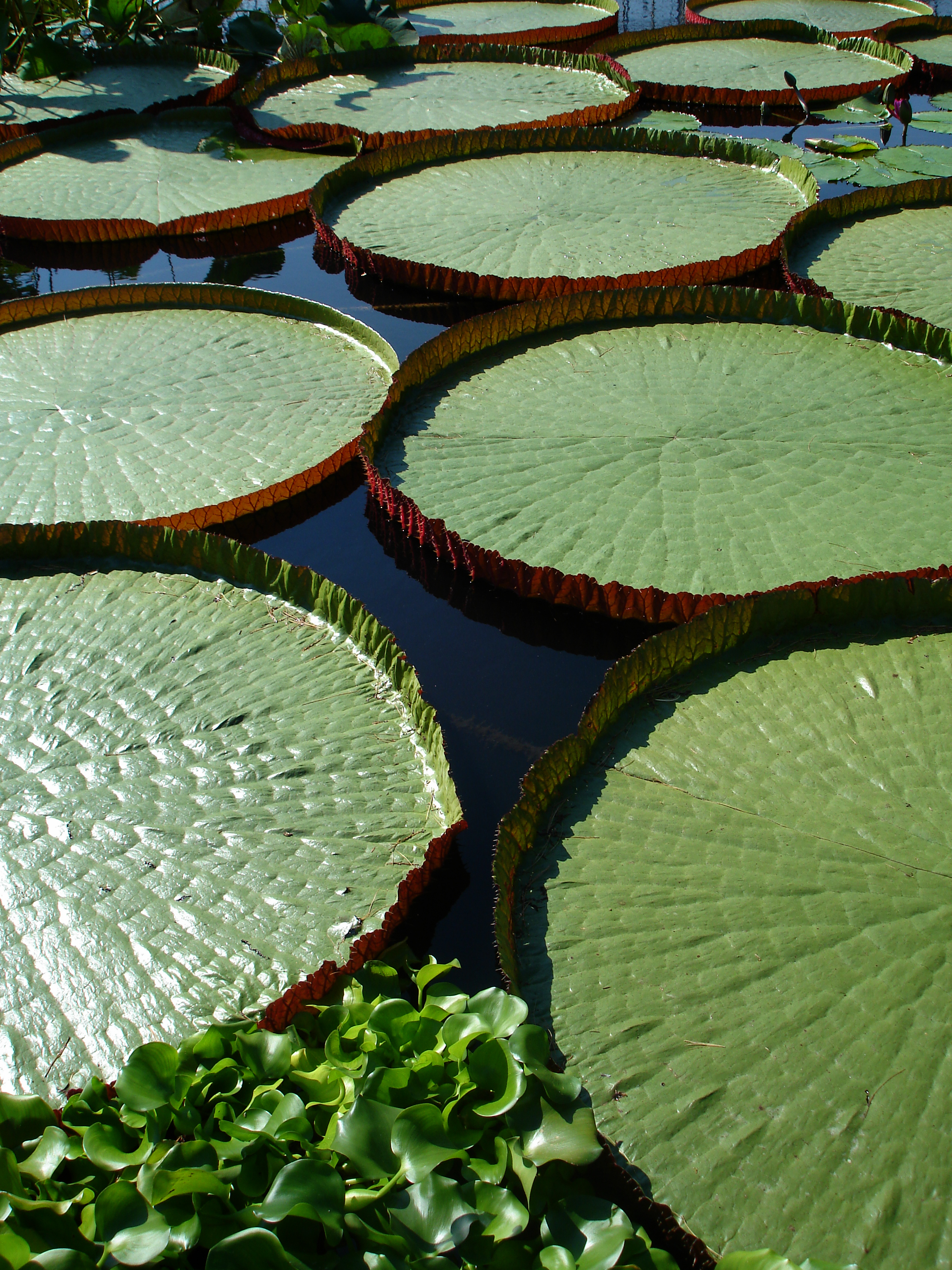 Victoria amazonica leaves.